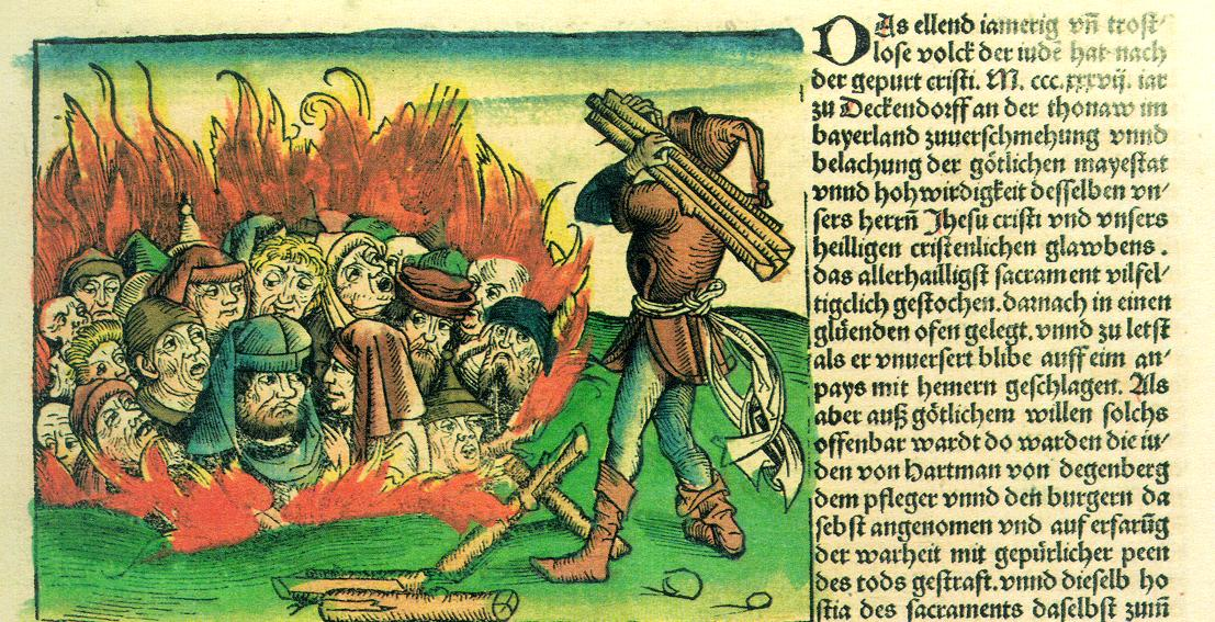 Jews burned alive for the alleged host desecration in Deggendorf, Bavaria, in 1338, and in Sternberg, Mecklenburg, 1492; a woodcut from the Nuremberg Chronicle (1493)